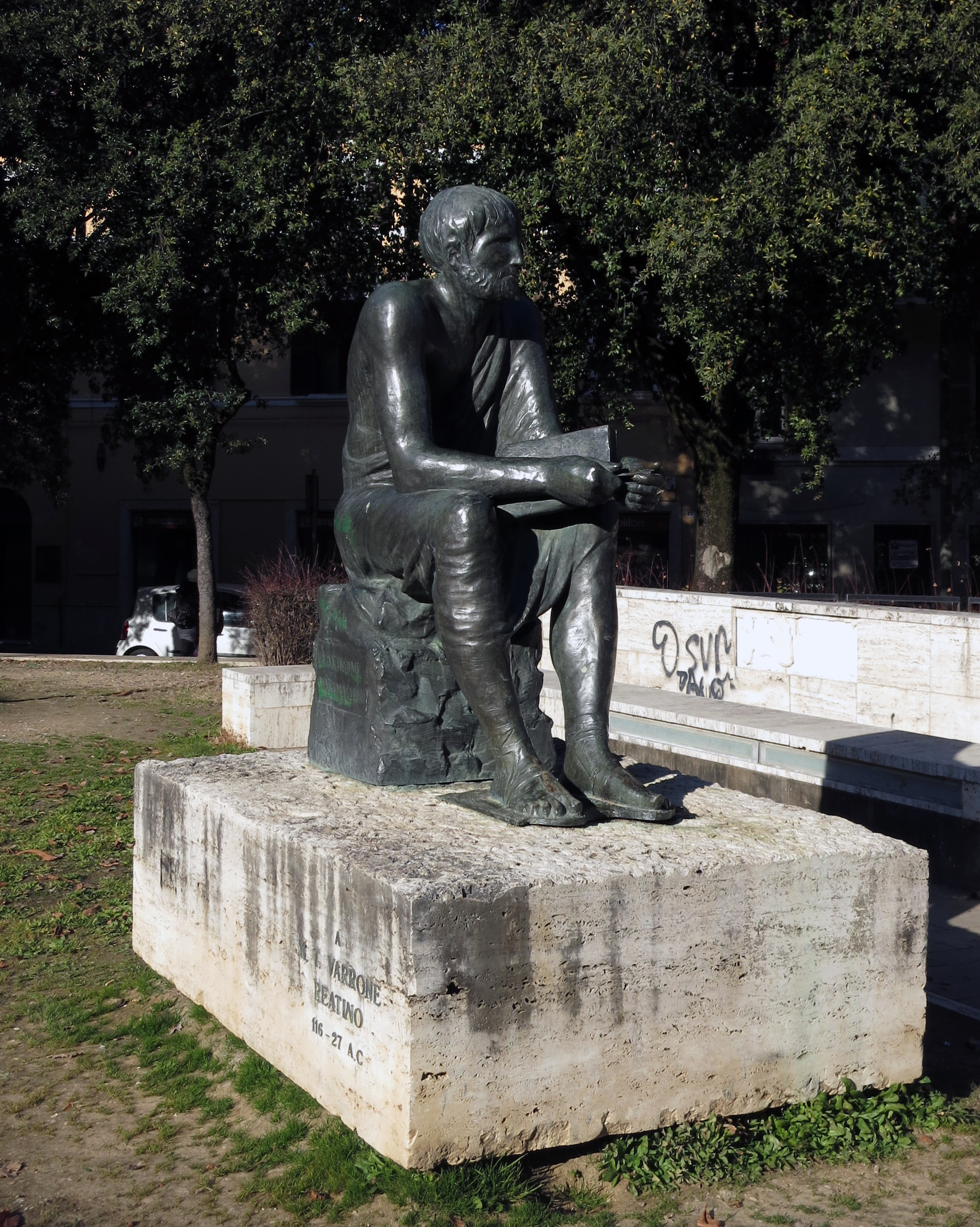 Statue of ancient Roman scholar Marcus Terentius Varro in his birthplace, Rieti (Lazio, Italy)